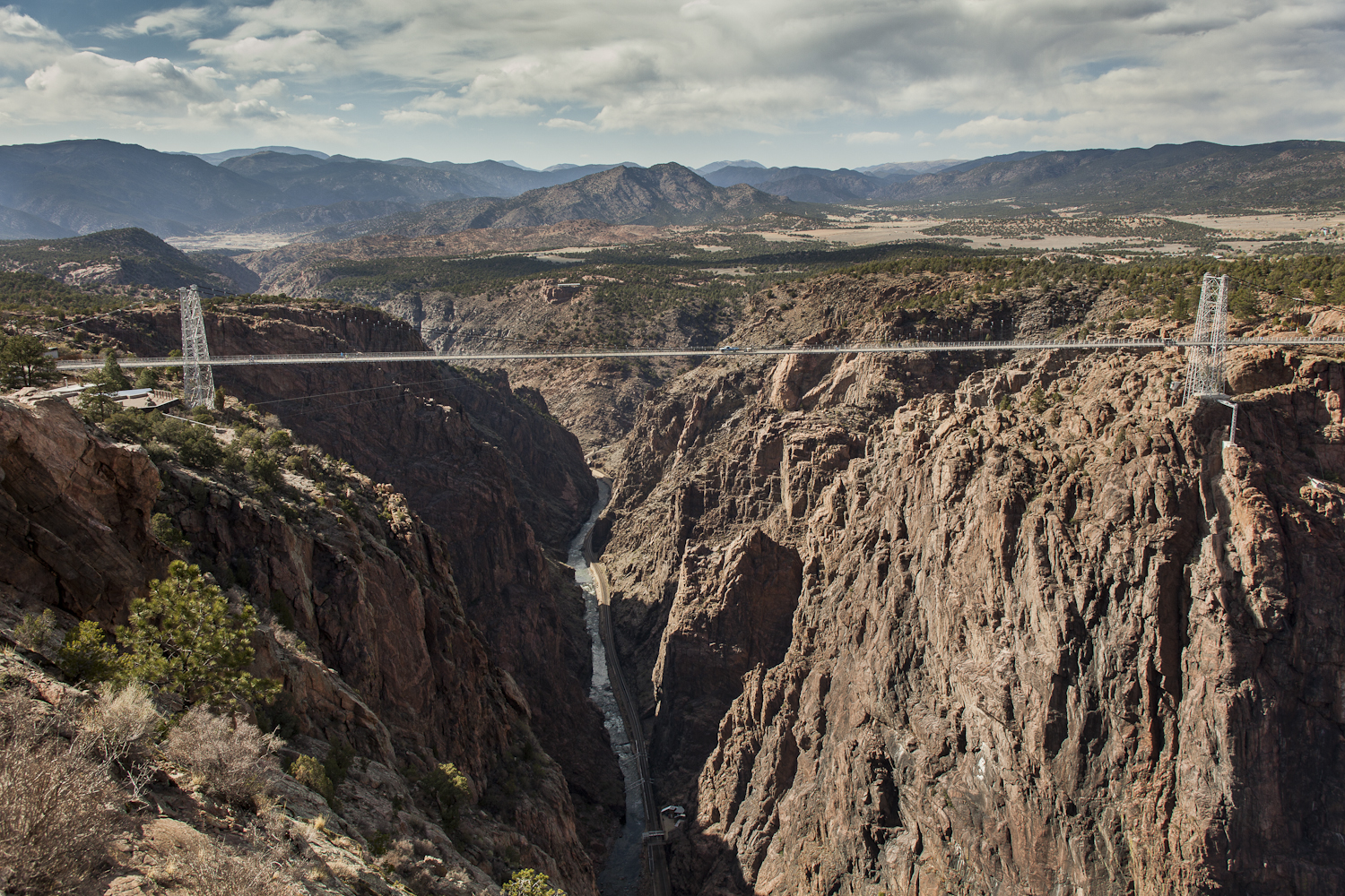 Royal Gorge Bridge, Colorado - looking westward